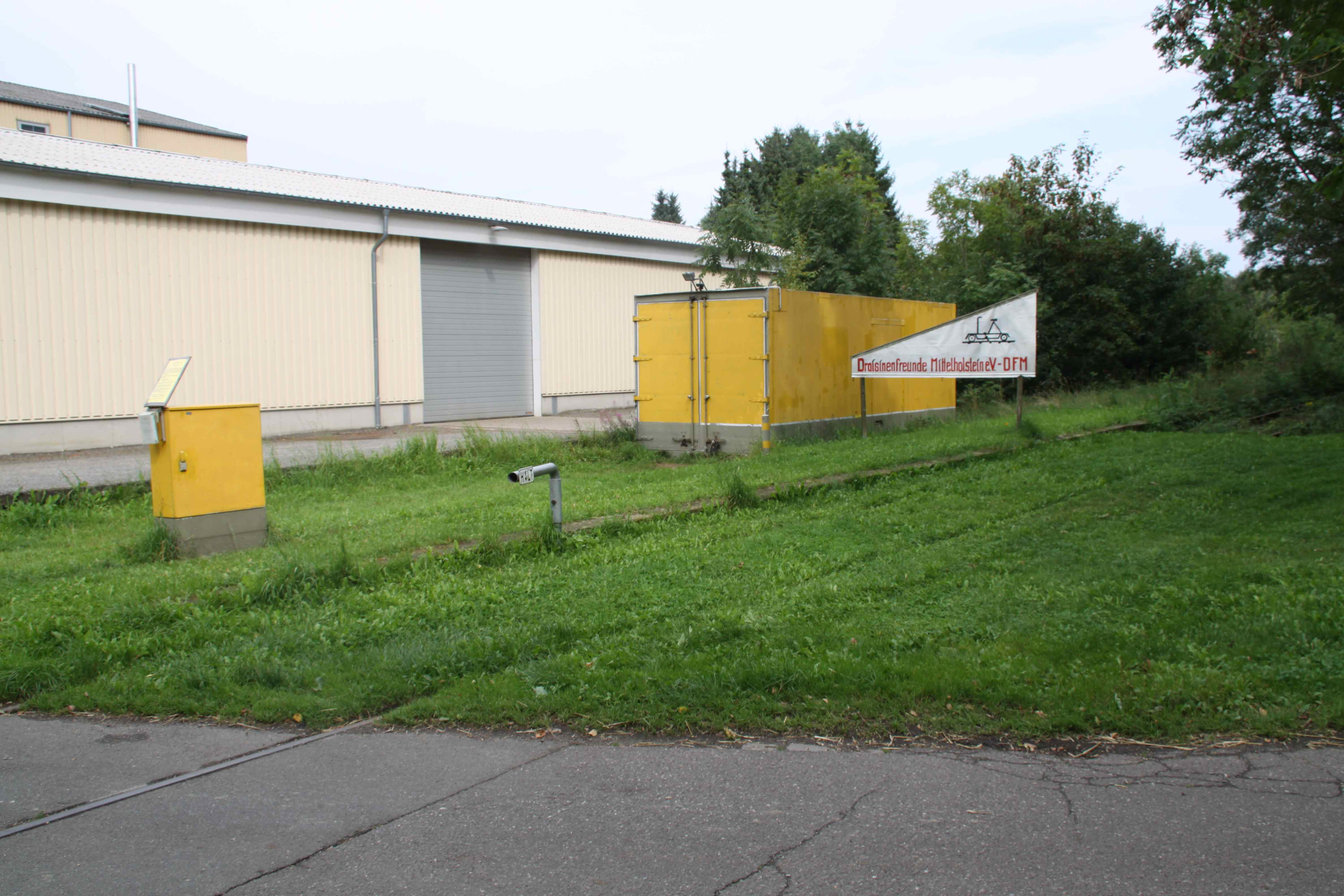 Bahnhof Bokhorst